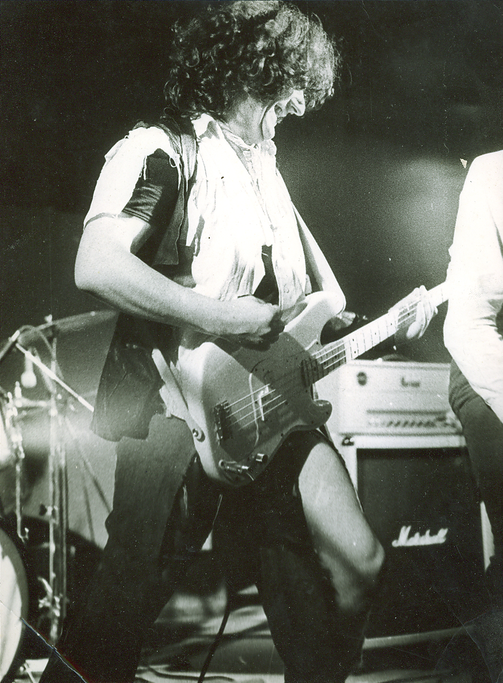 Bruno Langer, founder, composer, songwriter, singer and bass-guitarist in rock band "Atomic shelter" from Pula (Croatia)